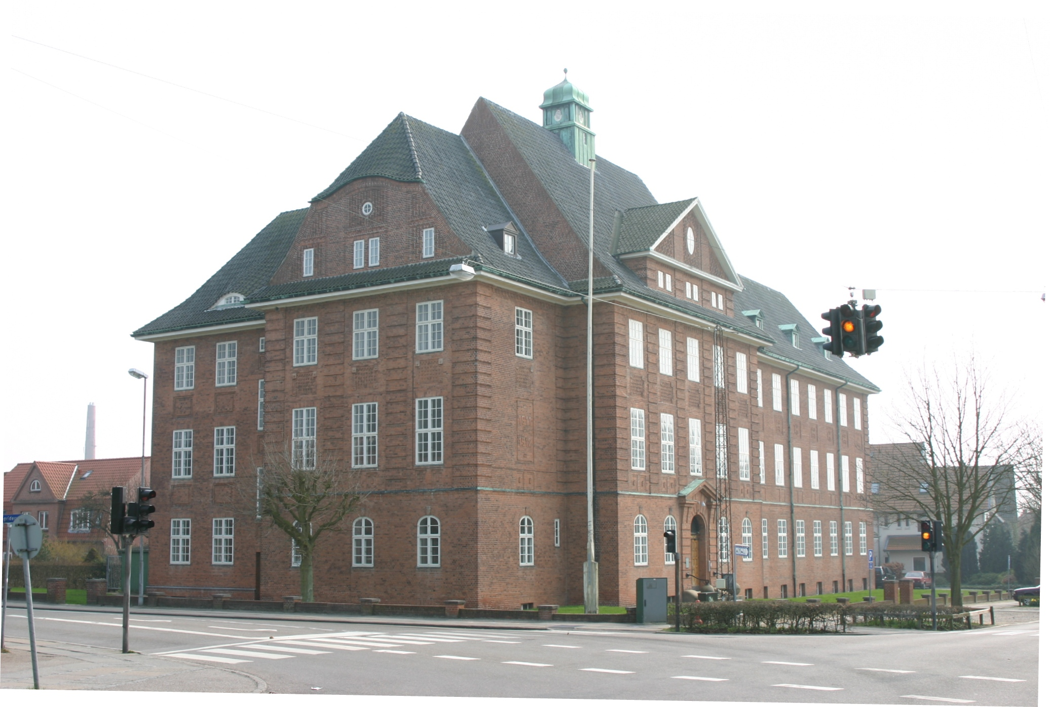 Court House in Sønderborg, Denmark Domhuset i Sønderborg